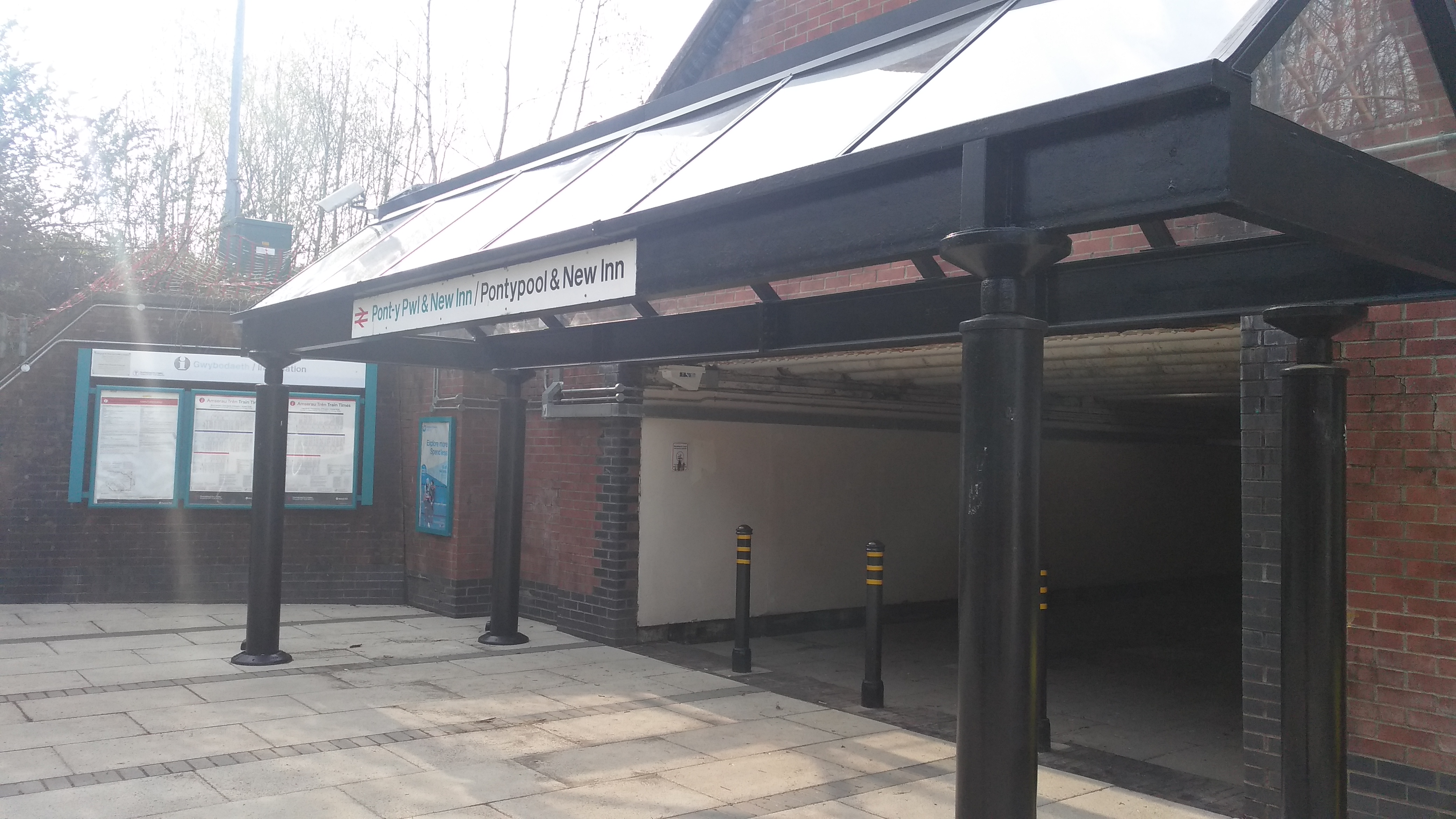 Pontypool & New Inn Railway Station Entrance